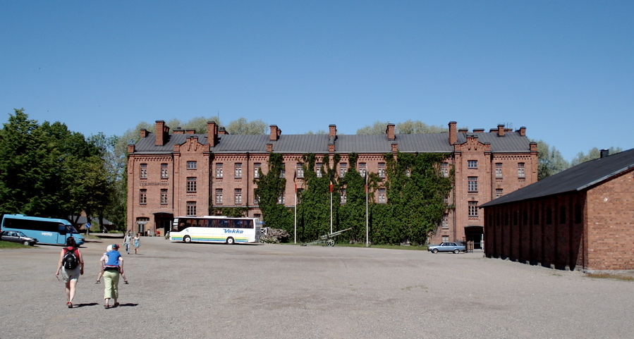 Finnish Artillery Museum in Hämeenlinna, Finland. View of the main building from the courtyard. Photo taken on June 18, 2006. Source: Photo by me, User:Balcer.